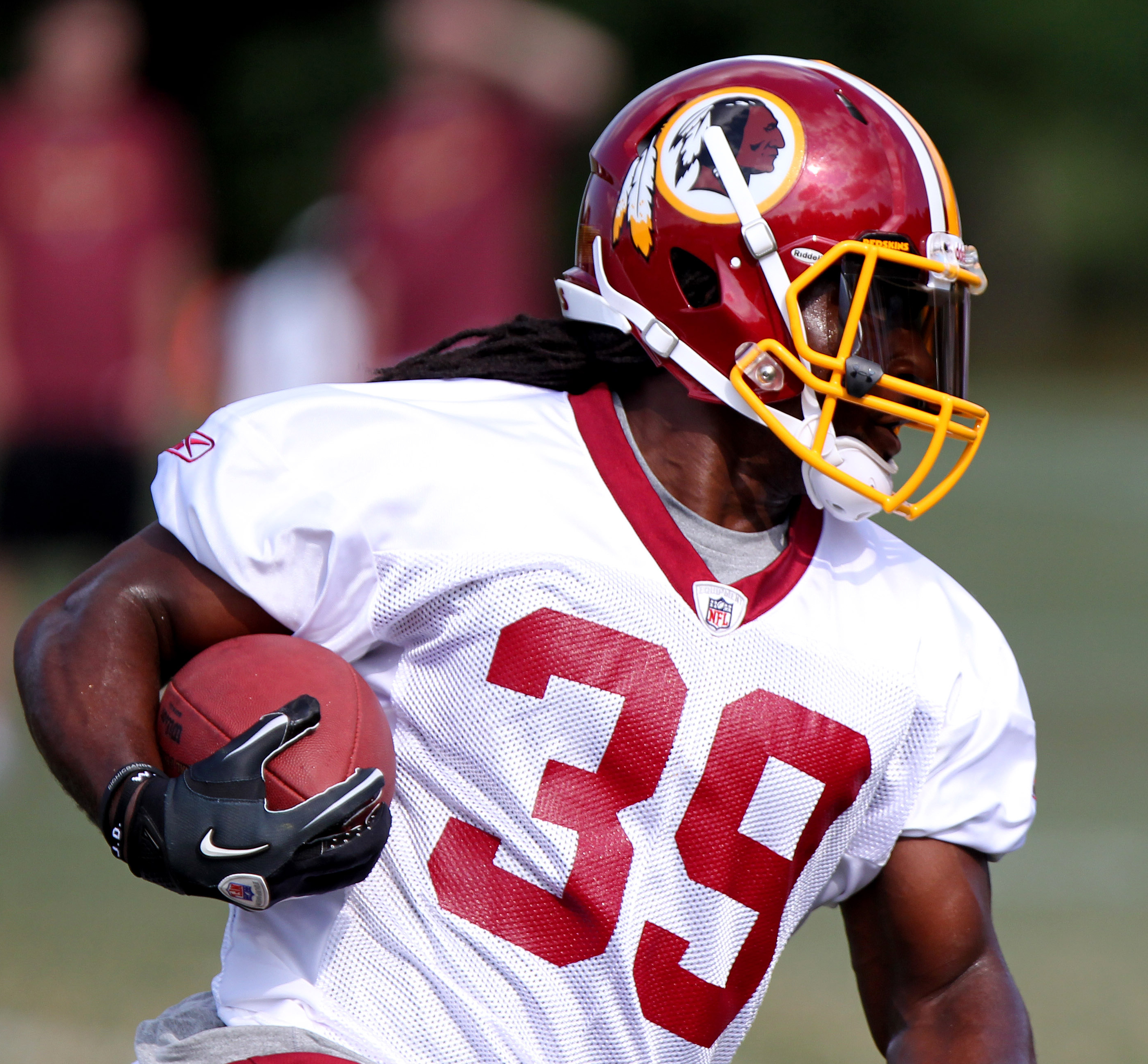 Washington Redskins Training Camp August 4, 2011